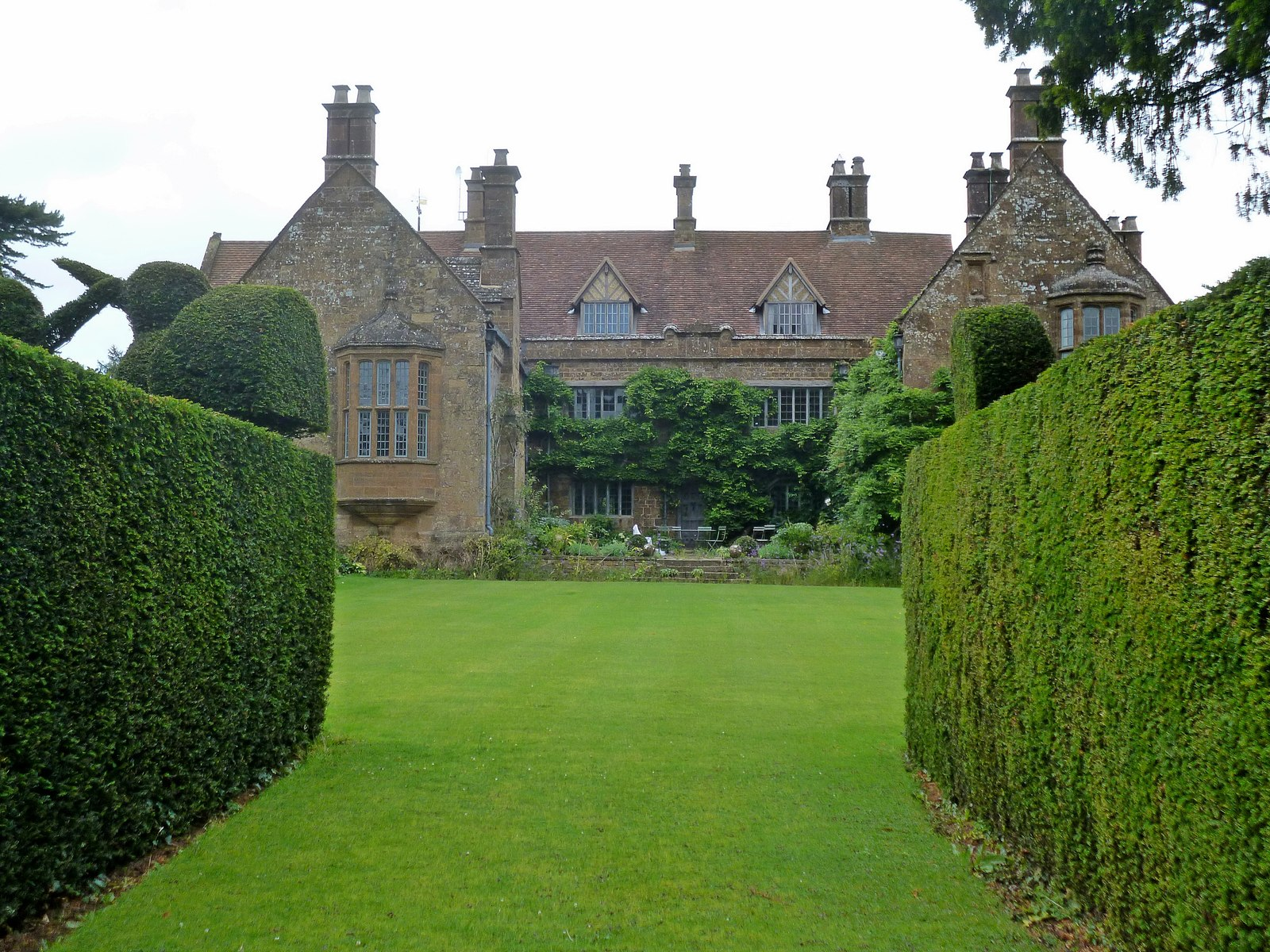 Wardington Manor house, Thorpe Road, Upper Wardington, Oxfordshire, seen from the southwest